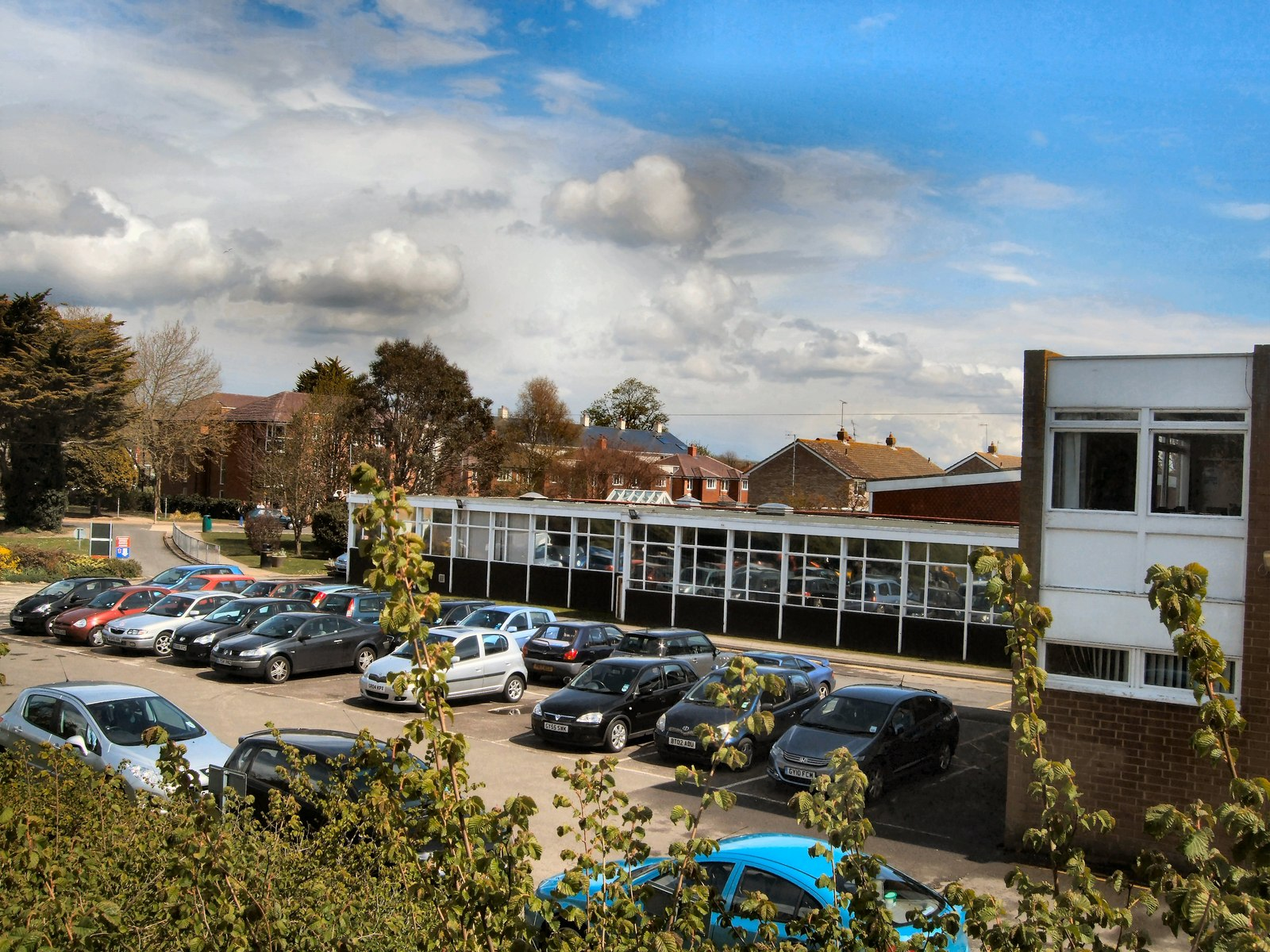 Worthing College, Data from Geograph: Description: Further Education college for 16-19 year olds ICBM: 50.817968737876, -0.4089693093098 Location: (about 1 km from) near to Goring-by-Sea, West Sussex, Great Britain.